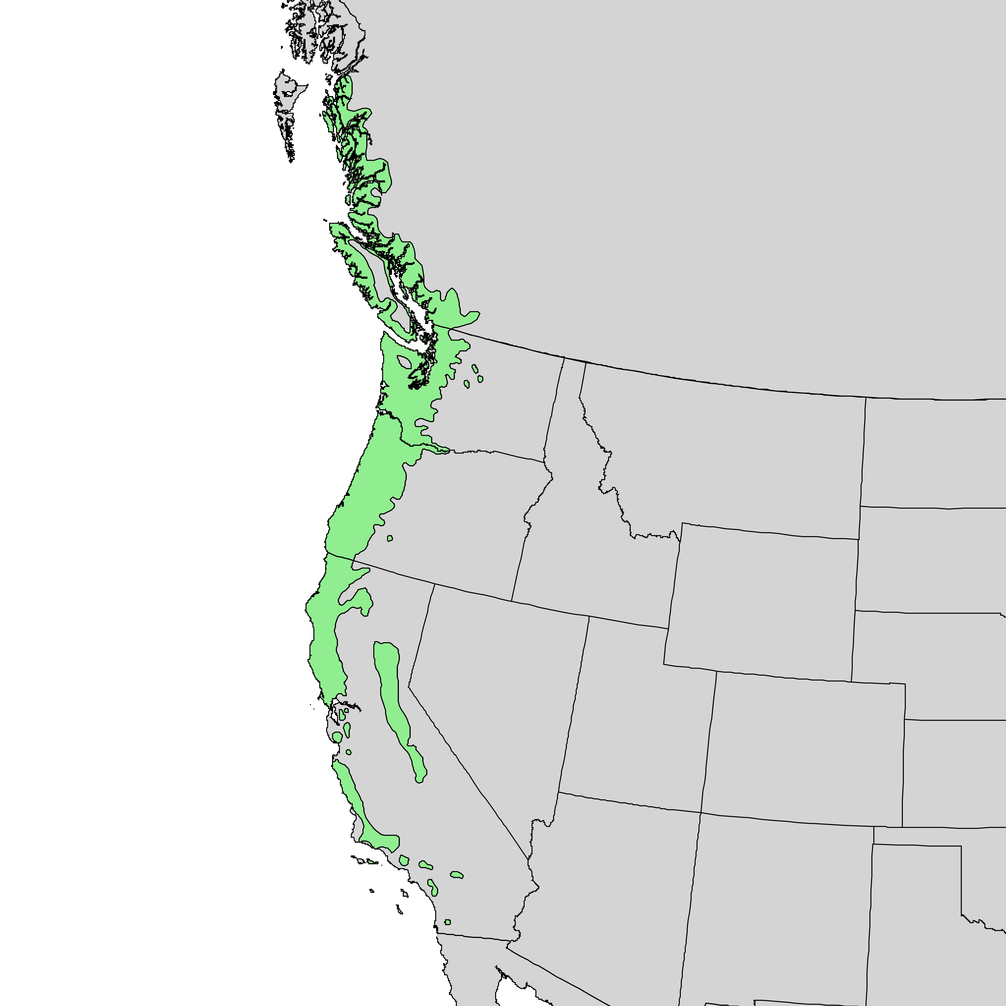 Natural distribution map for Acer macrophyllum.